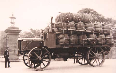 This photo taken in 1910 is of a Caldwell Vale Rough Terrain Road Tractor loaded up with bales of wool. These big transporters had a top speed of six miles per hour.